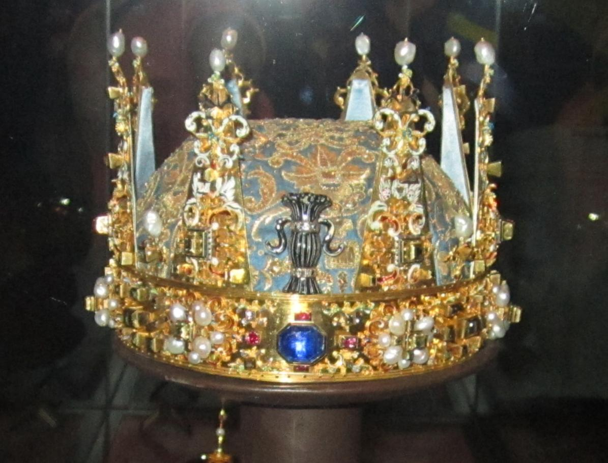 Coronet of the Heir Apparent of Sweden as shown to public on National DayPlace: Royal Treasury, Stockholm Palace, Sweden